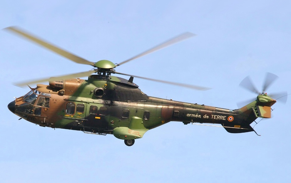 Eurocopter AS-532UL Cougar, France - Army